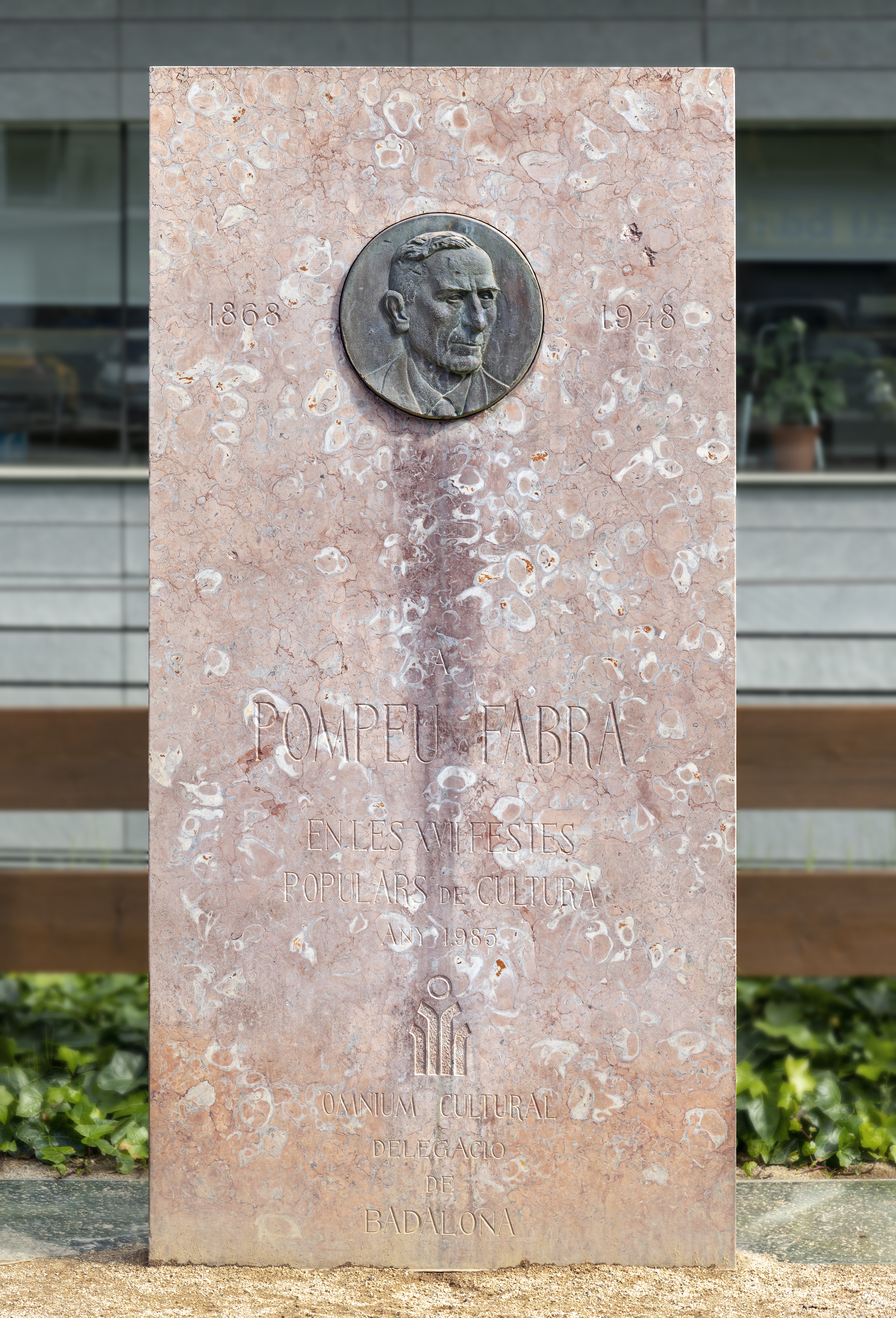 Monument à Pompeu Fabra, located in the Plaza Assembly of Catalonia in Badalona.